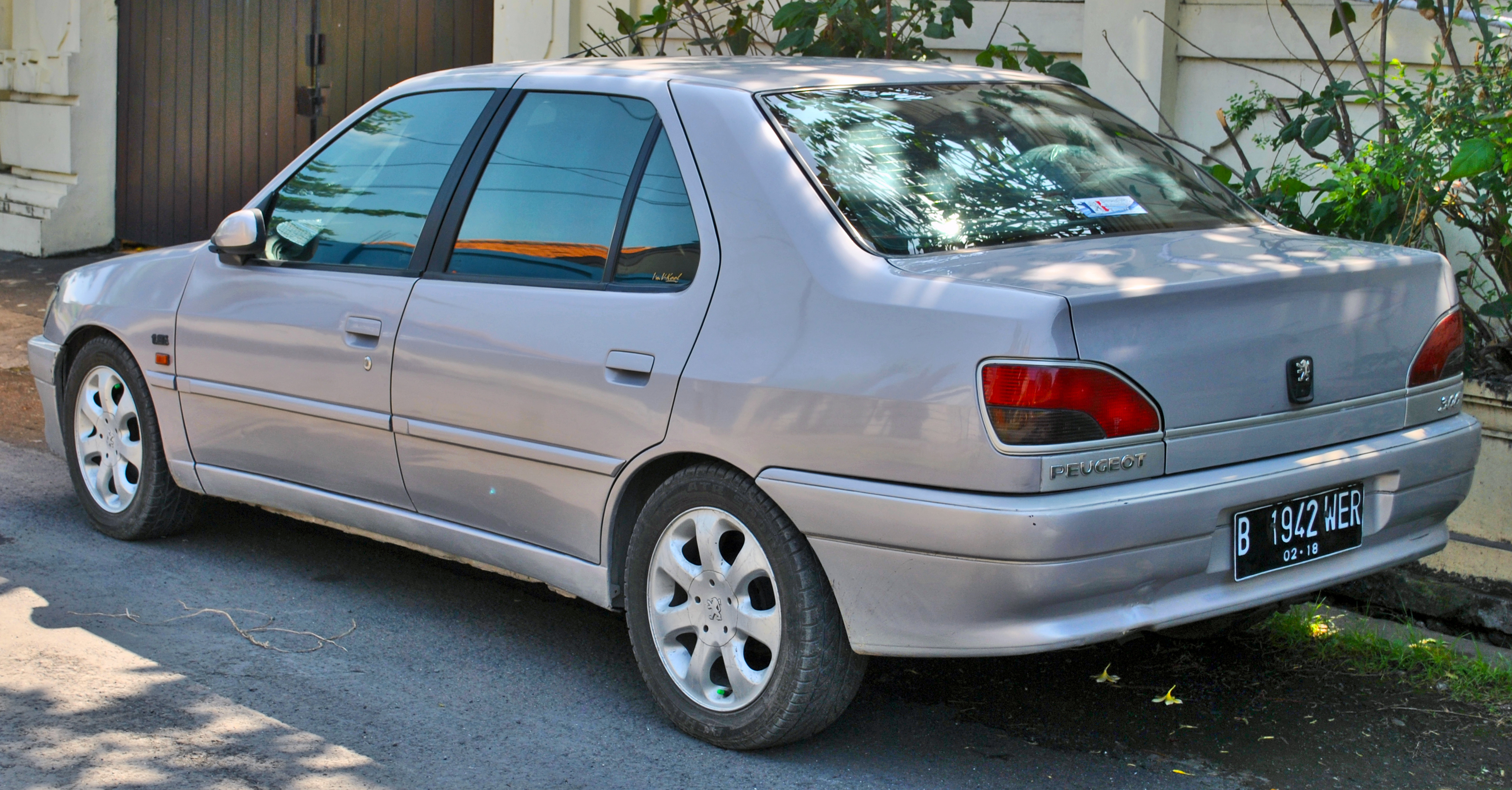 Rare Peugeot 306 Phase 1 saloon in Denpasar, Bali, Indonesia. Jakarta plate registration.